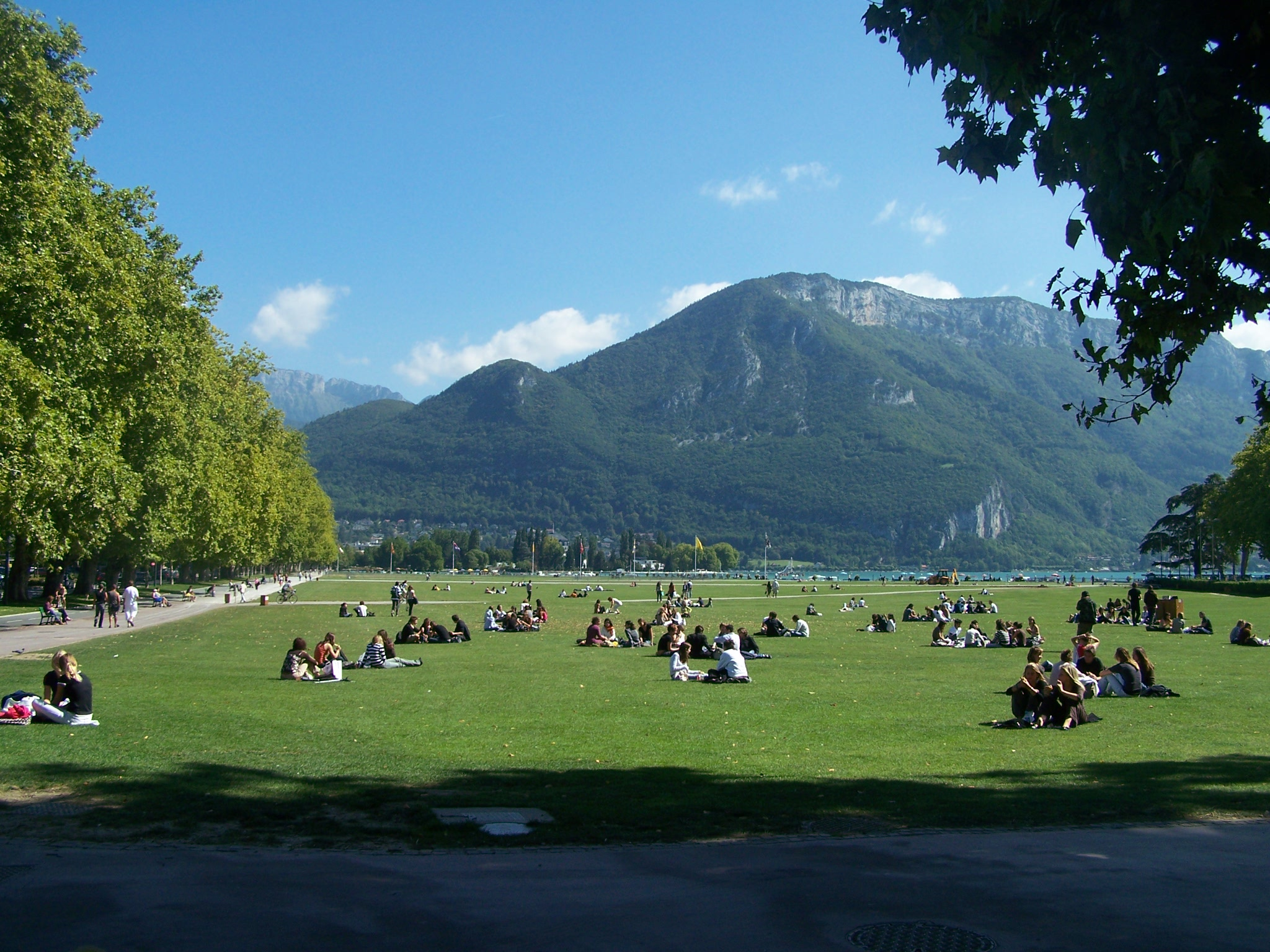 Sight on le Pâquier: Champ de Mars of Annecy, in Haute-Savoie, France.